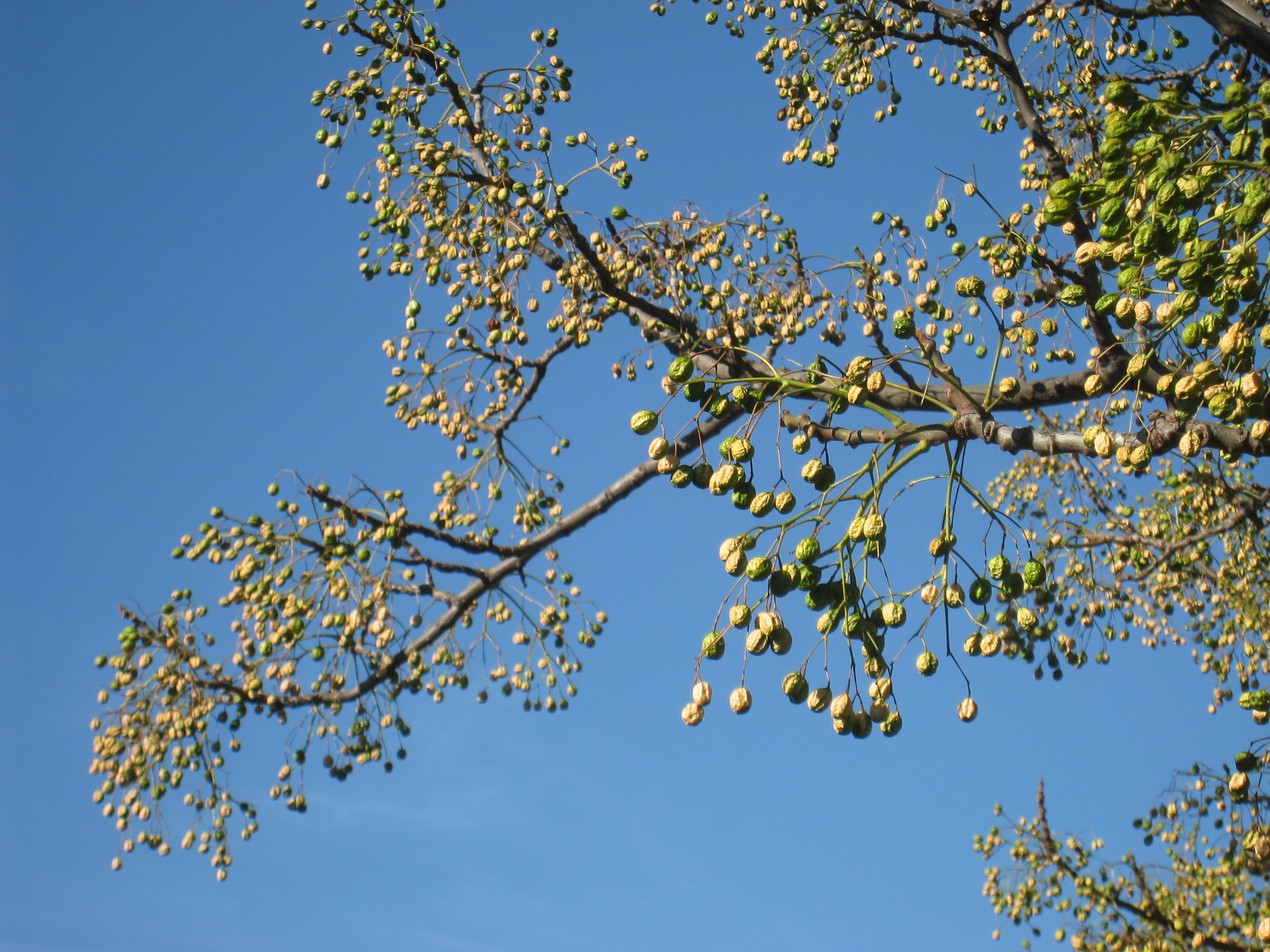 Melia azedarach (detail) in the Jardin des Plantes de Paris, Paris, France.